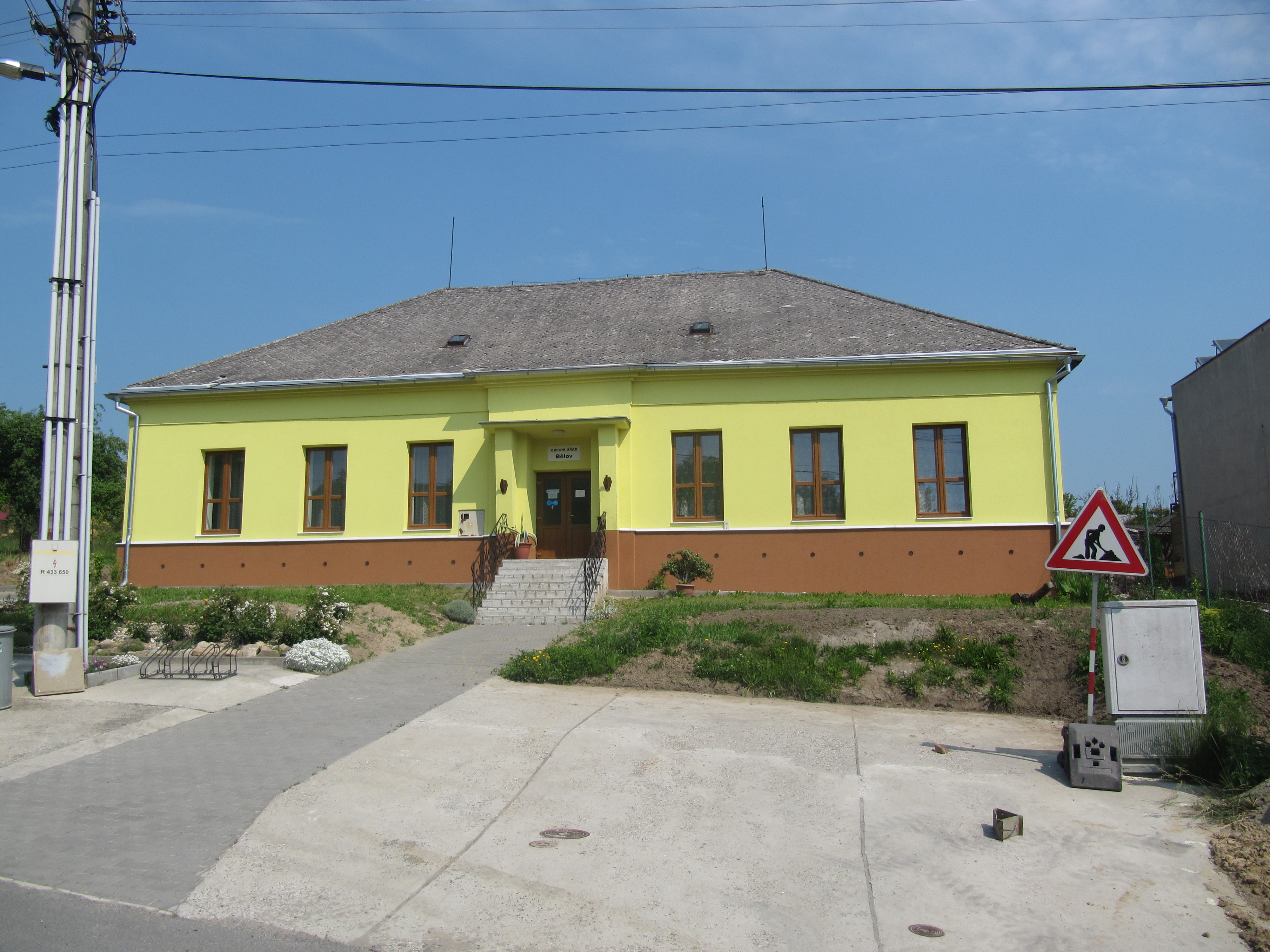 Bělov in Zlín District, Czech Republic. Municipal office.